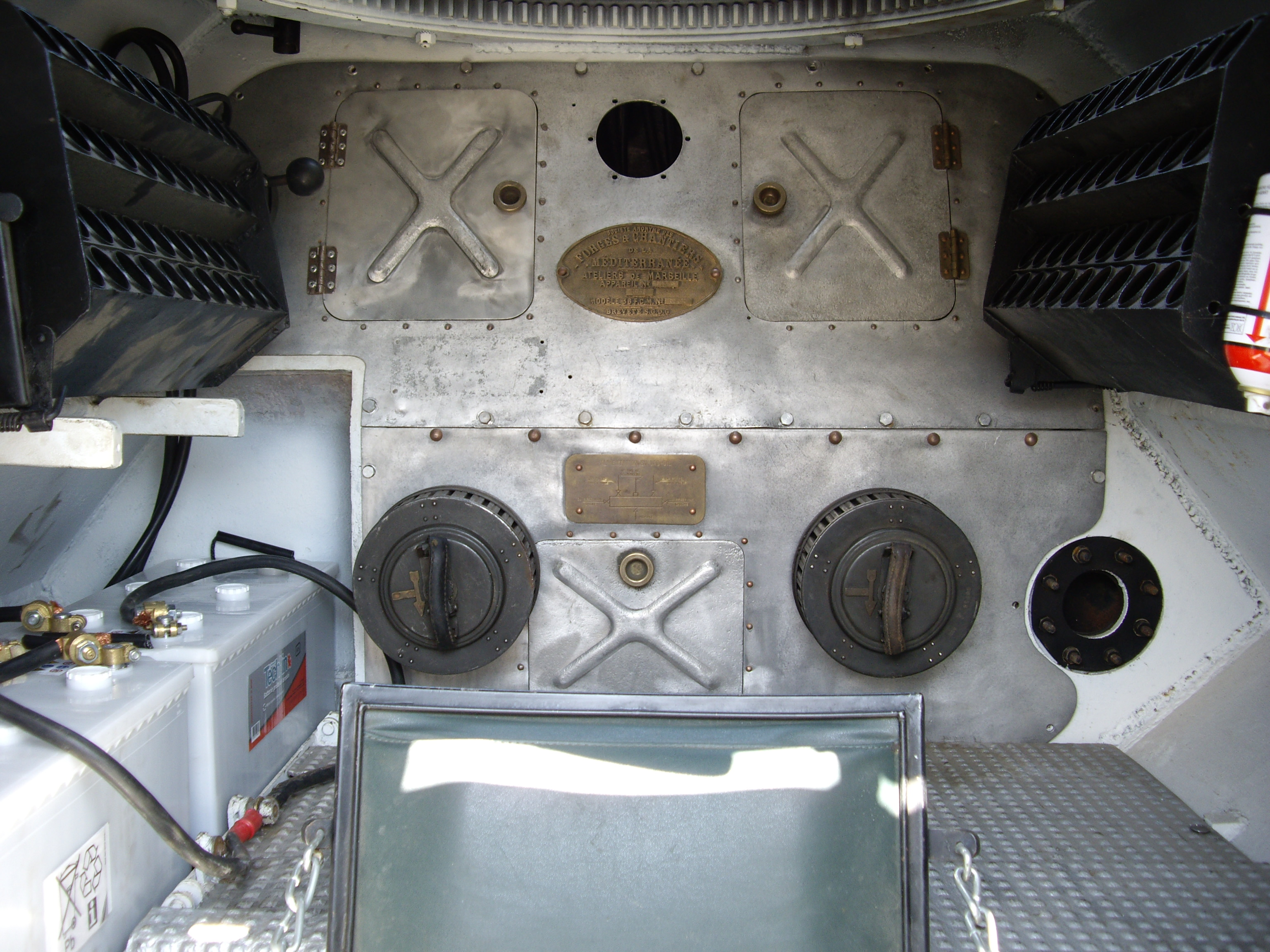 Photo of the interior of the FCM 36 tank, taken at the Saumur Tank Museum on July, 2007.